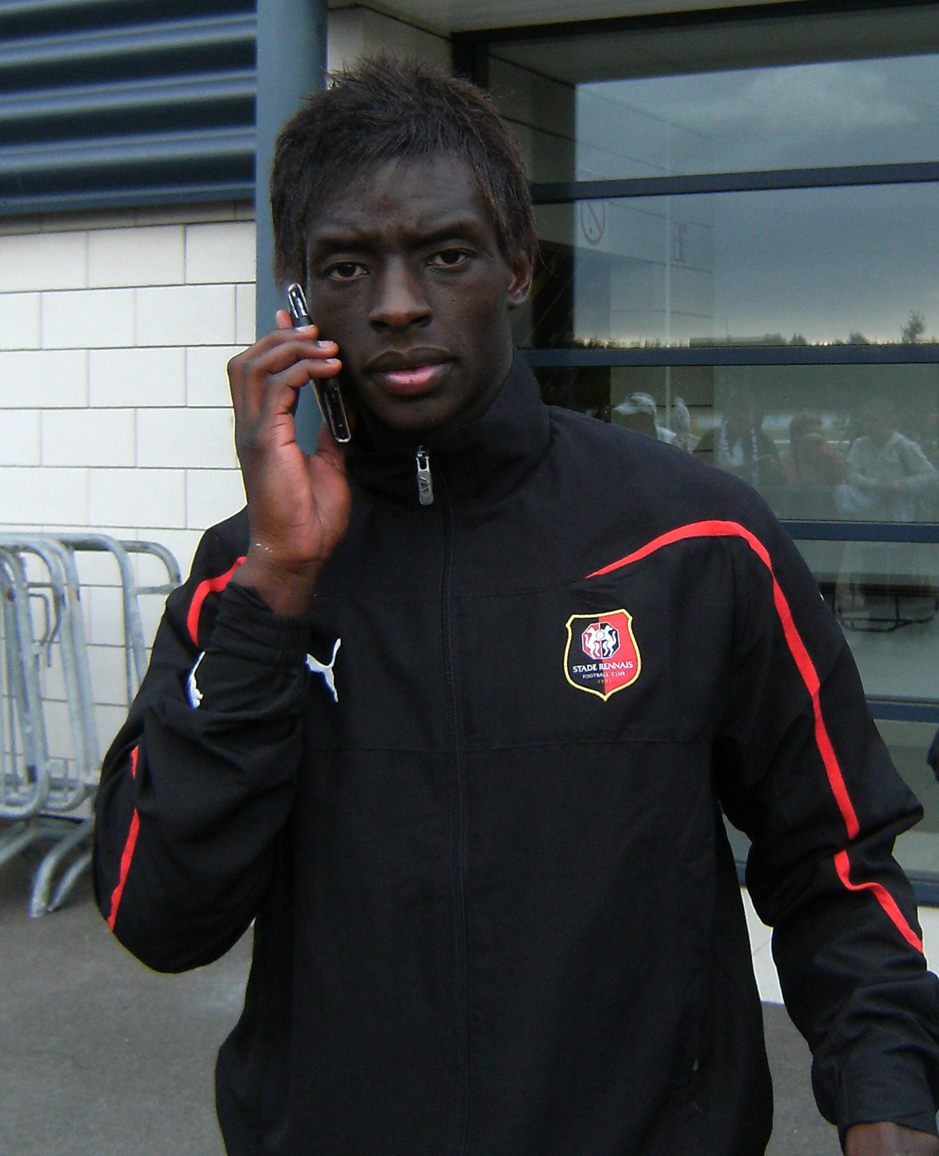 Lhadji Badiane after a friendly game between Stade rennais FC and Stade Malherbe de Caen in Ouistreham